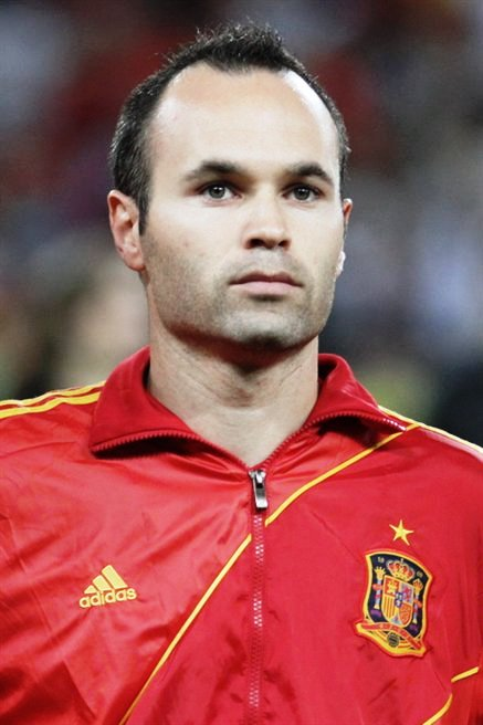 Andrés Iniesta at Euro 2012 match Spain-France